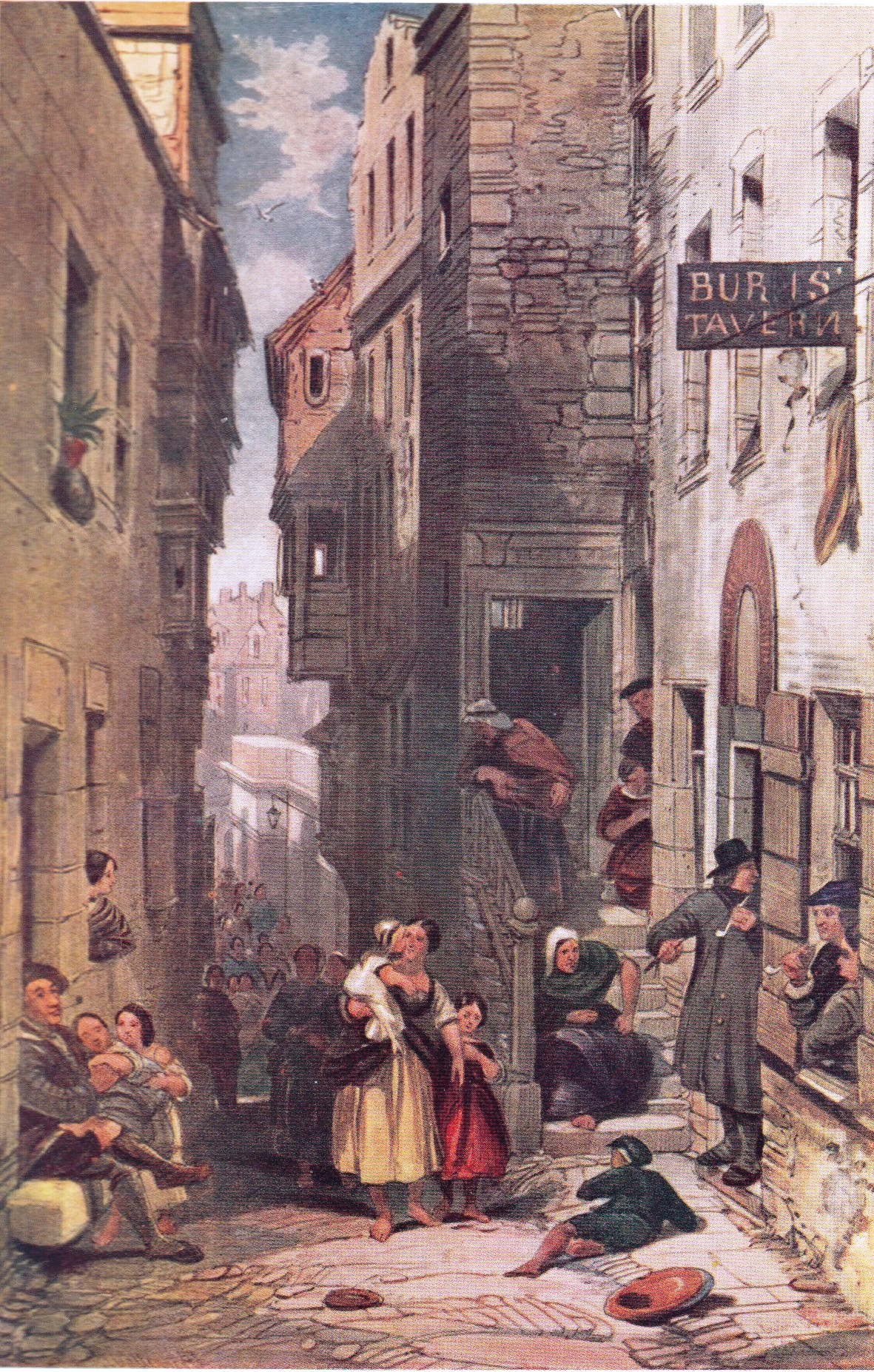 "Dowie's Tavern, Libberton's Wynd" by George Cattermole. Libberton or Libberton's Wynd was a steep street which ran downhill from the Lawnmarket to the Cowgate, roughly on the line of the eastern side of present-day George IV Bridge. The wynd disappeared with the building of the bridge, which was completed in 1834. The innkeeper Johnnie Dowie kept a "howff" (favourite haunt) here which was frequented by Robert Burns during his stay in Edinburgh in 1786. Patrons included the painter Henry Raeburn, the poets Robert Fergusson and Thomas Campbell, the philosopher David Hume, the writer Christopher North, the song-collector David Herd and the brewer Archibald Younger. After Dowie's death in 1817, the new owner displayed a signboard with the name "Burns' Tavern".